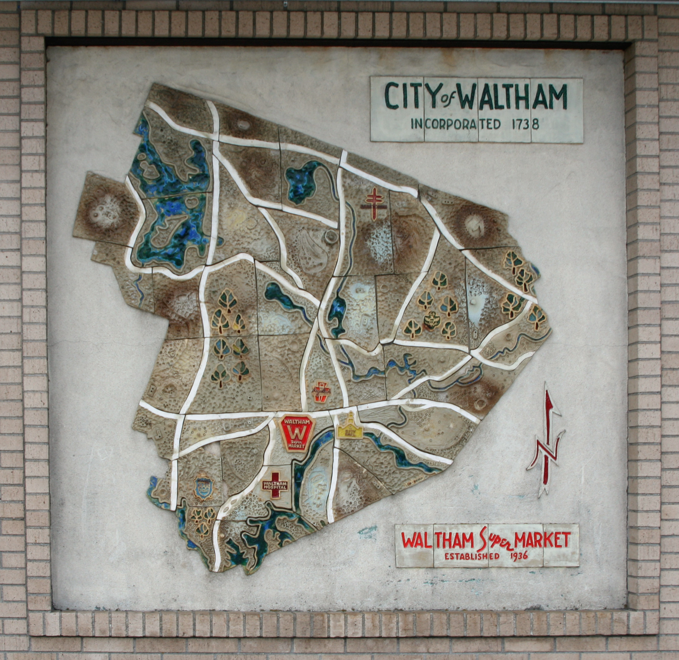 Map of Waltham on the original Waltham Supermarket building (now Hannaford).